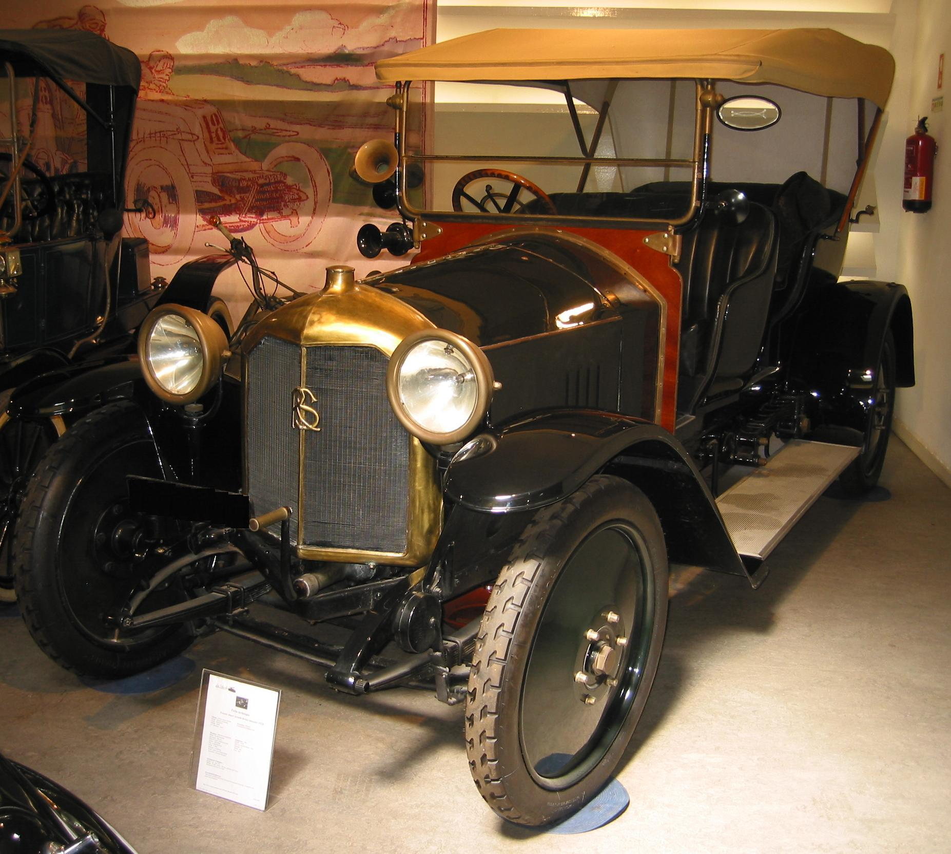 Rochet-Schneider 16500 1924 (Country of origin: France)